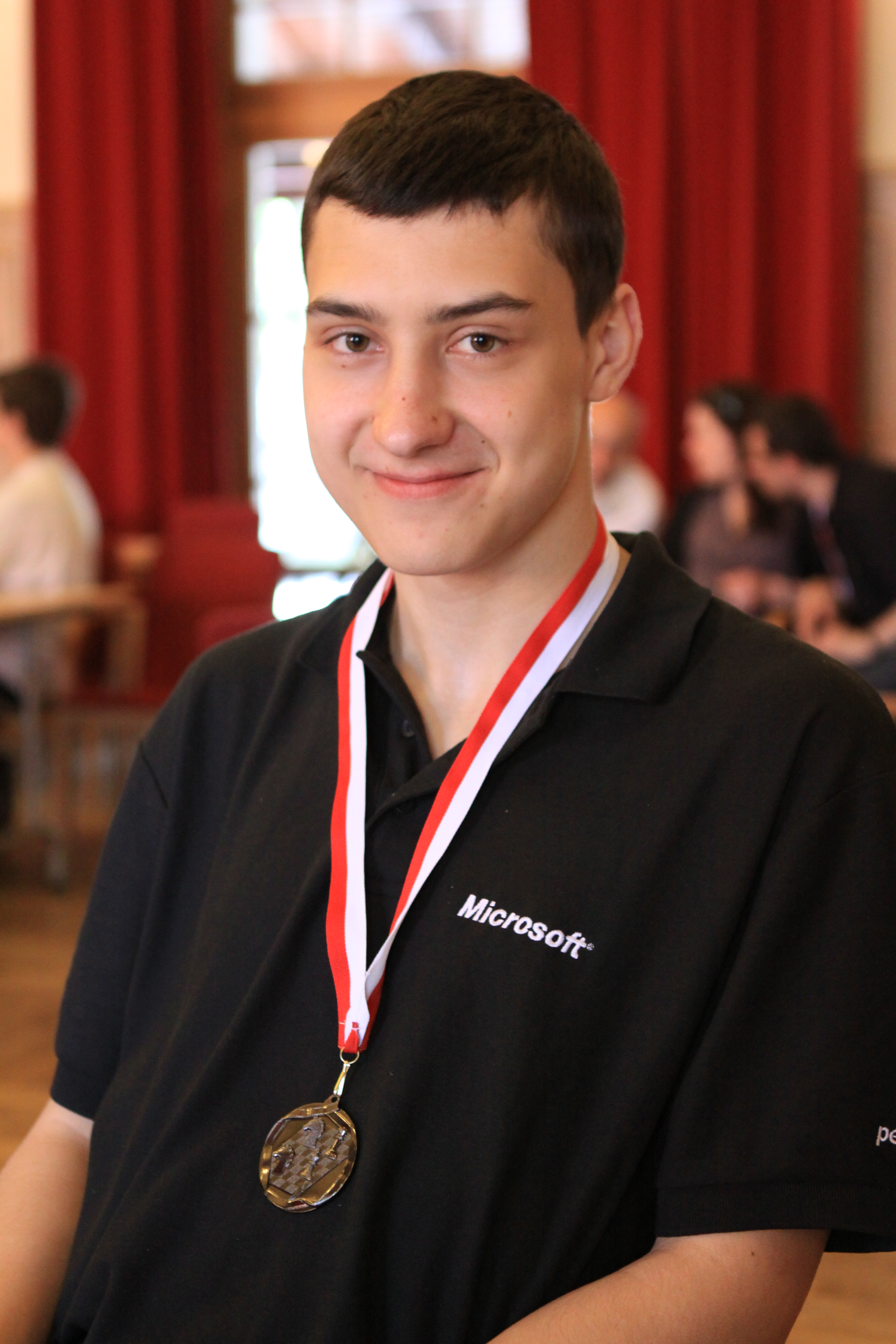 This photo was taken at the Polish Blitz Championships on Sunday 30th May where Dariusz recieved 2nd place.